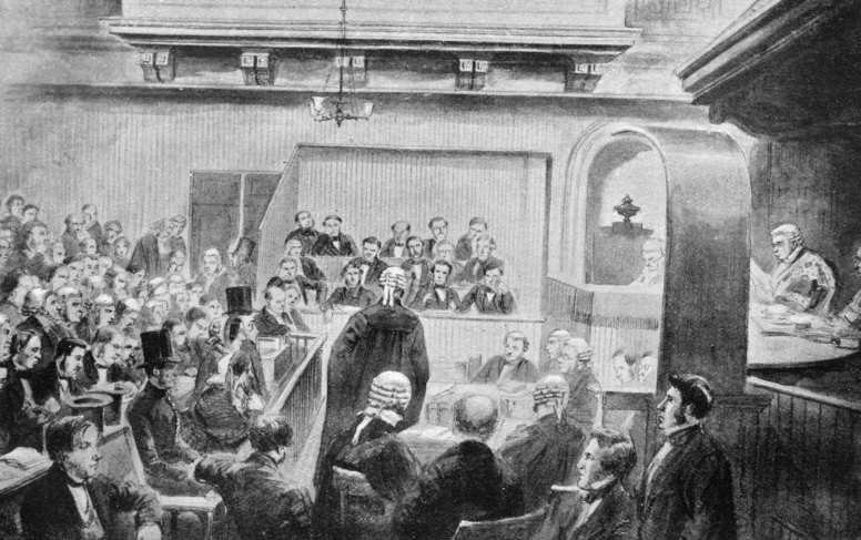 Image from the Scottish trial of Madeline Smith